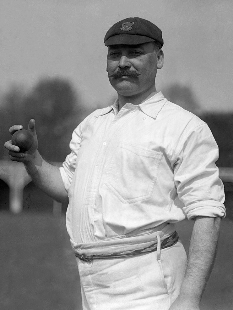 Frederick William Tate, Sussex, circa 1905.